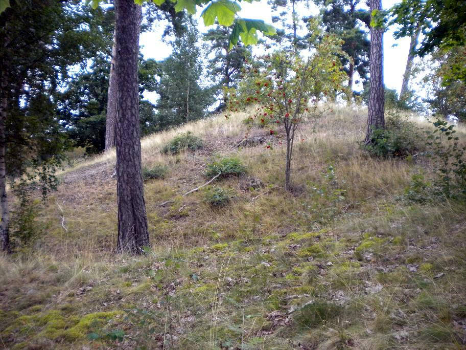 The royal tumulus in the woods called Beorn Ironsides’s tumulus (Björn Järnsidas hög) above Husby farm estate, as released by image creator RistessonPlace: Munsö (Mouth Island) area of Ekerö, Sweden